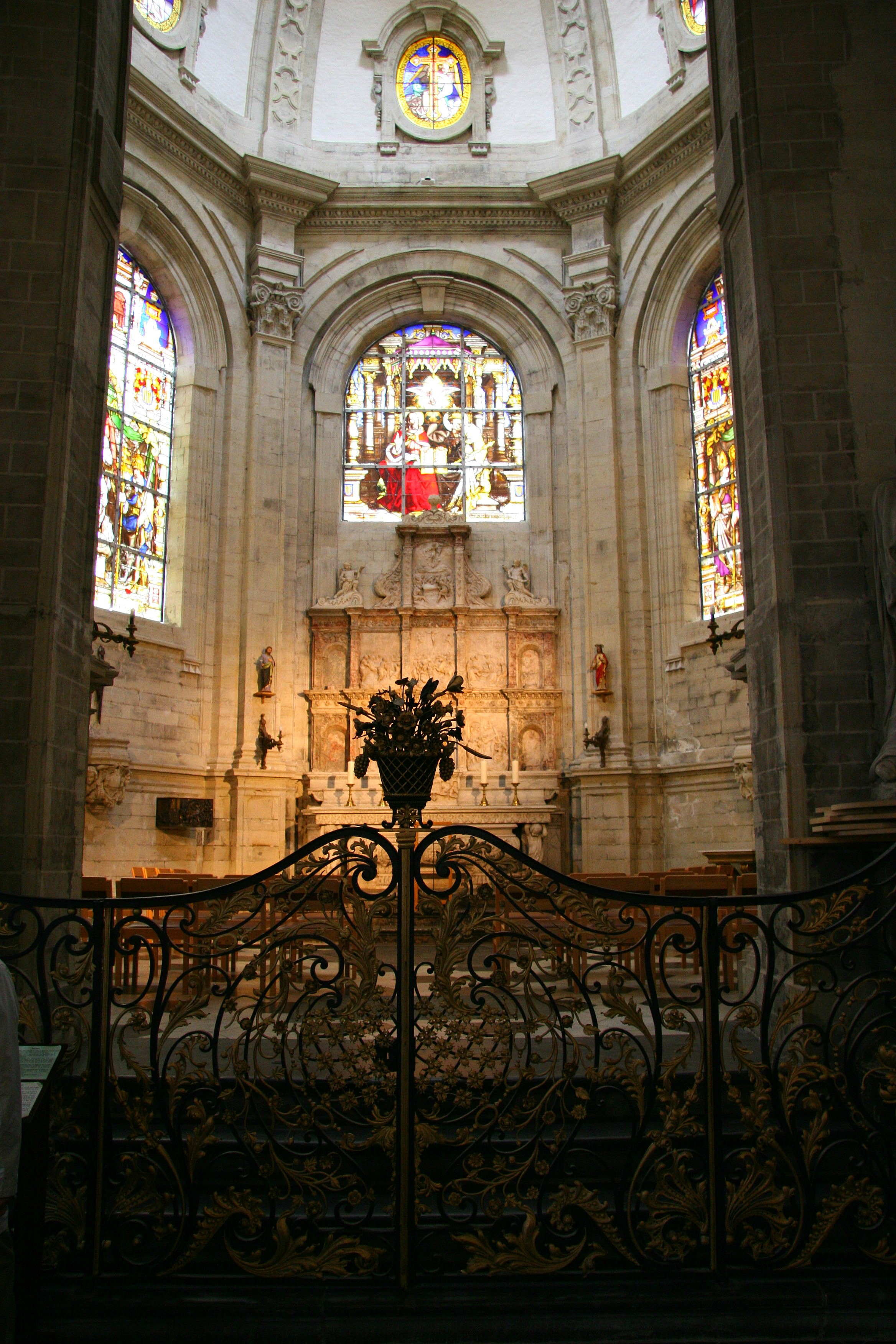 The Maes-chapel, built in the 17th century in baroque style, in the St. Michael and Gudula cathedral in Brussels.